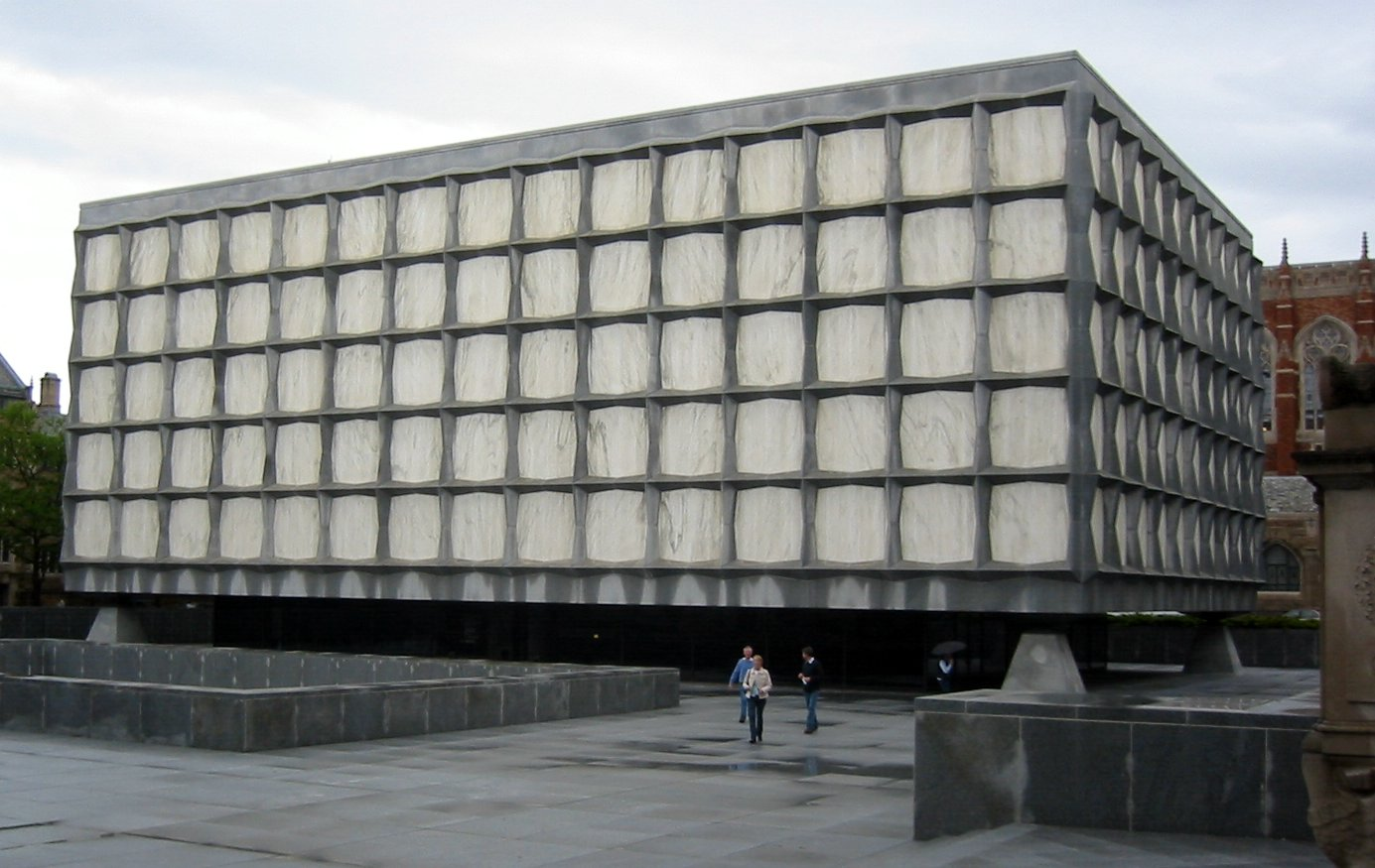 Beinecke Library at Yale University.